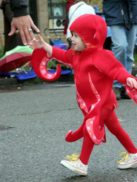 Baby Octopus reaches for dad's hand; 2005 Procession of the Species, Olympia WA [David A. Koontz, ]